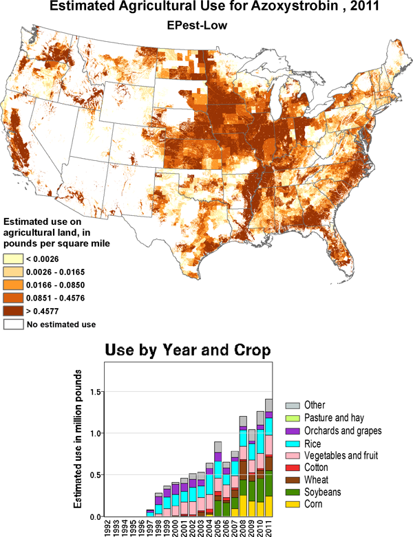 Azoxystrobin map of use, USA, 2011 (estimated)